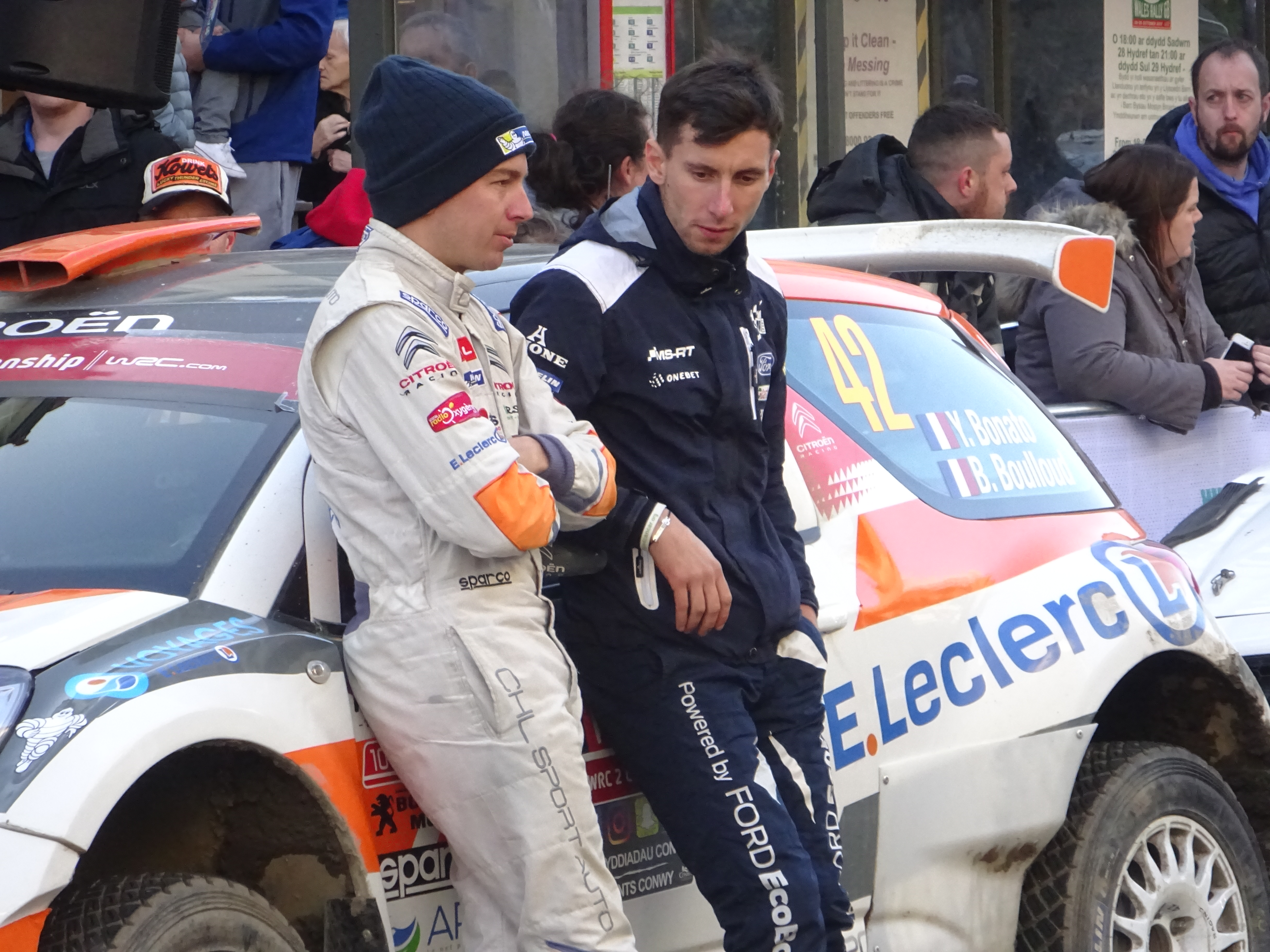 Wales Rally penultimate round of the World Rally Championship, Llandudno 2012.